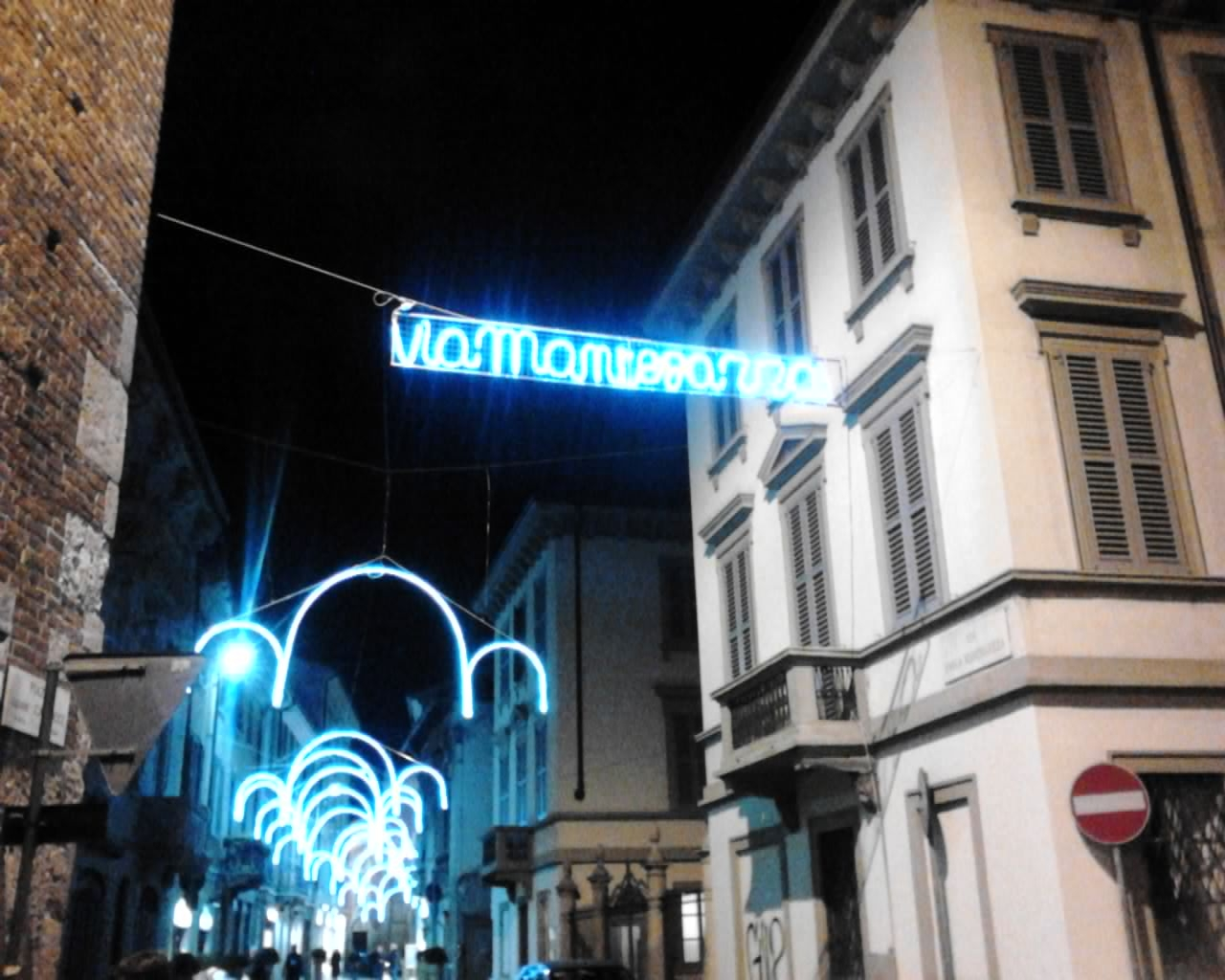 Via Mantegazza in Monza ITALY - Christmas decoration